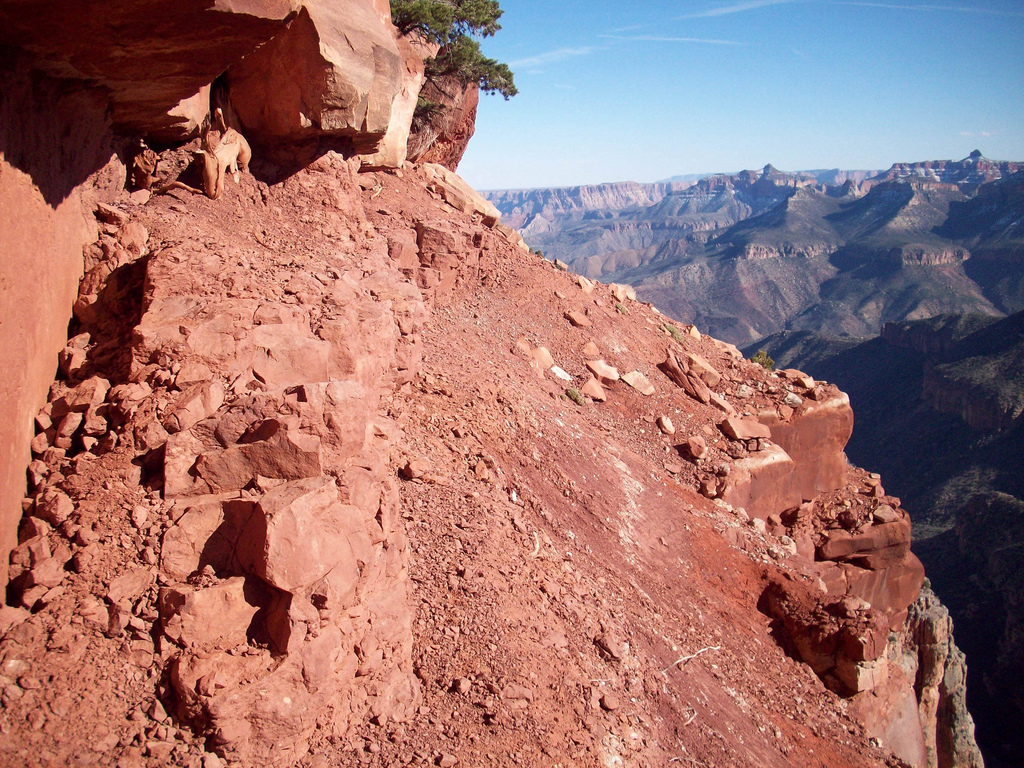 Nankoweap Trail Bad section